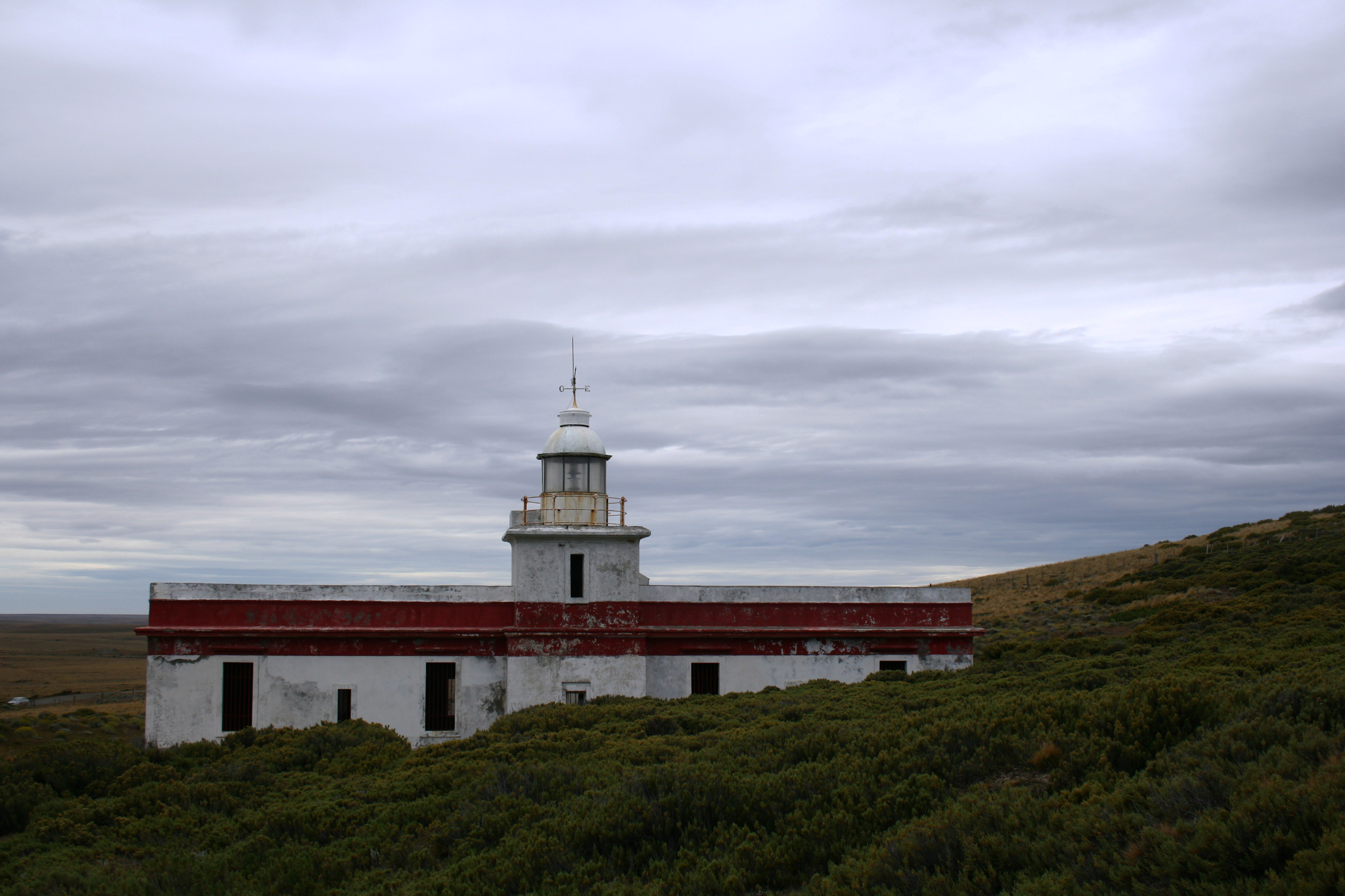 This is a photo of a national monument in Chile: 201